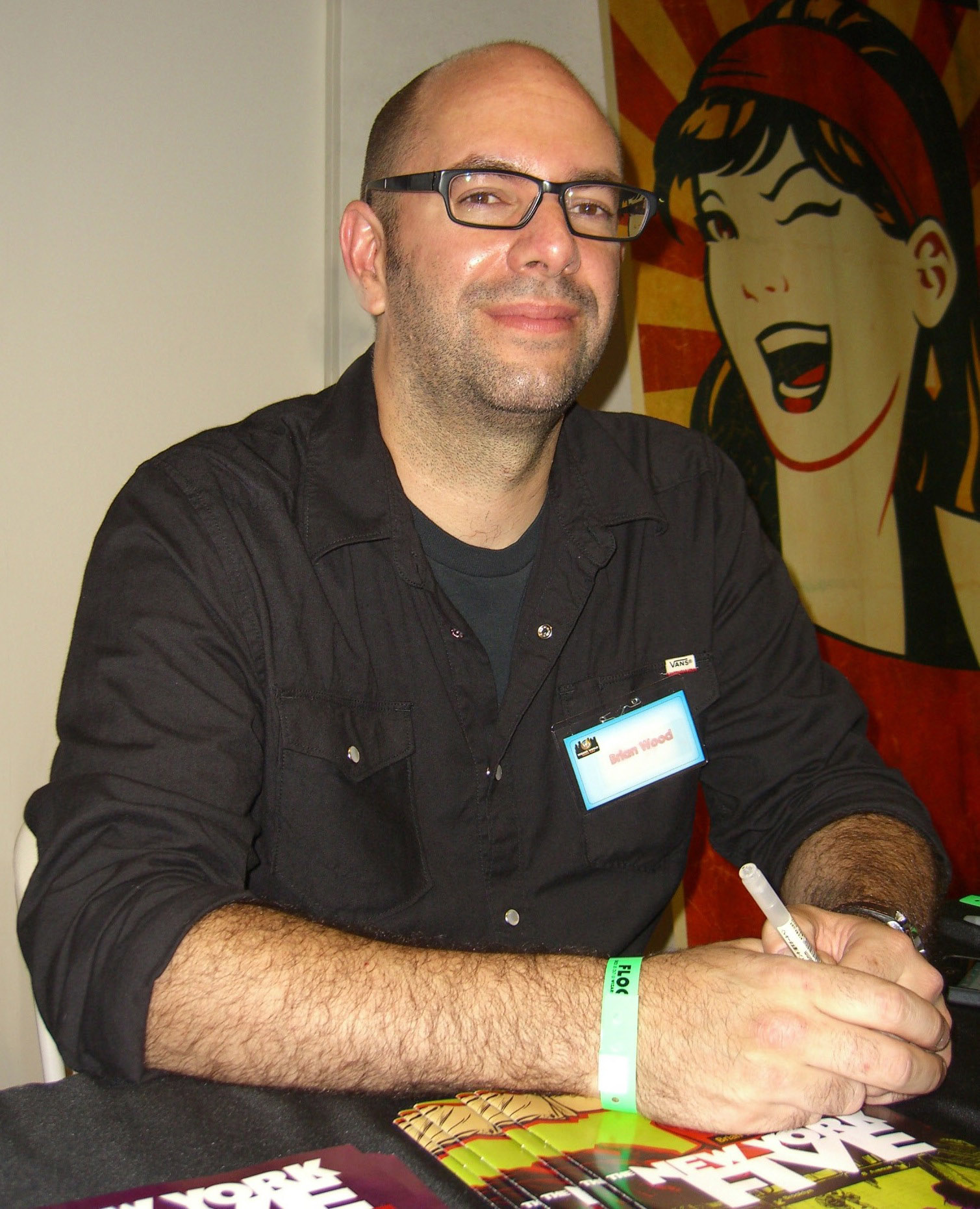 Comics creator Brian Wood at the Big Apple Convention in Manhattan, May 21, 2011. Photographed by Luigi Novi. This photo is not in the public domain. It may, however, be used, modified and published for any purpose, free of charge, only if the photographer is properly credited, either by linking the photograph to this page, or with an easily visible credit to the photographer placed near the photo in each instance in which it is used. (See licensing information below.) Publication of this photo without this proper attribution constitutes copyright infringement. If you have any questions, you can contact me on my Wikipedia Talk Page.